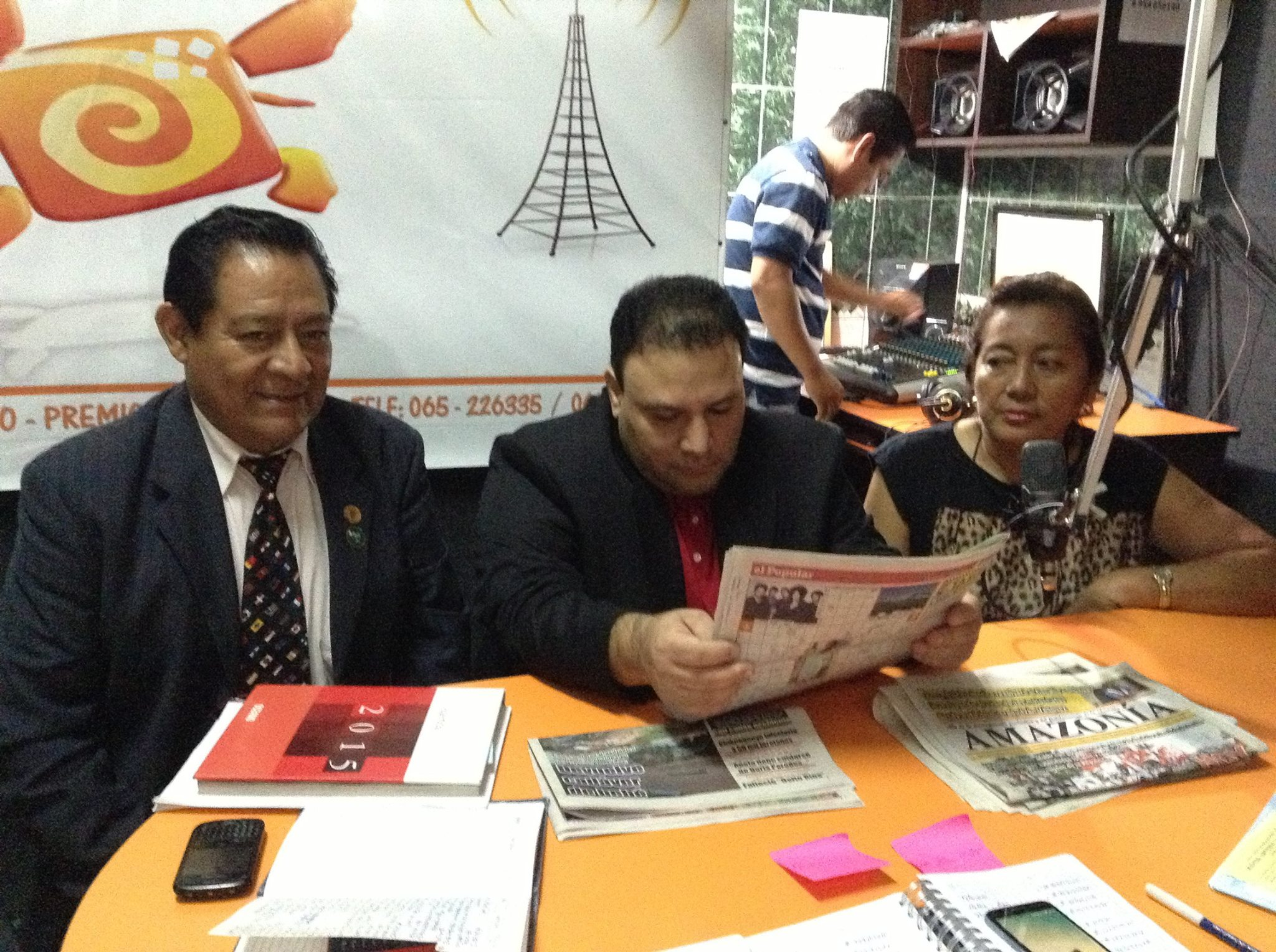 Enrique Odria